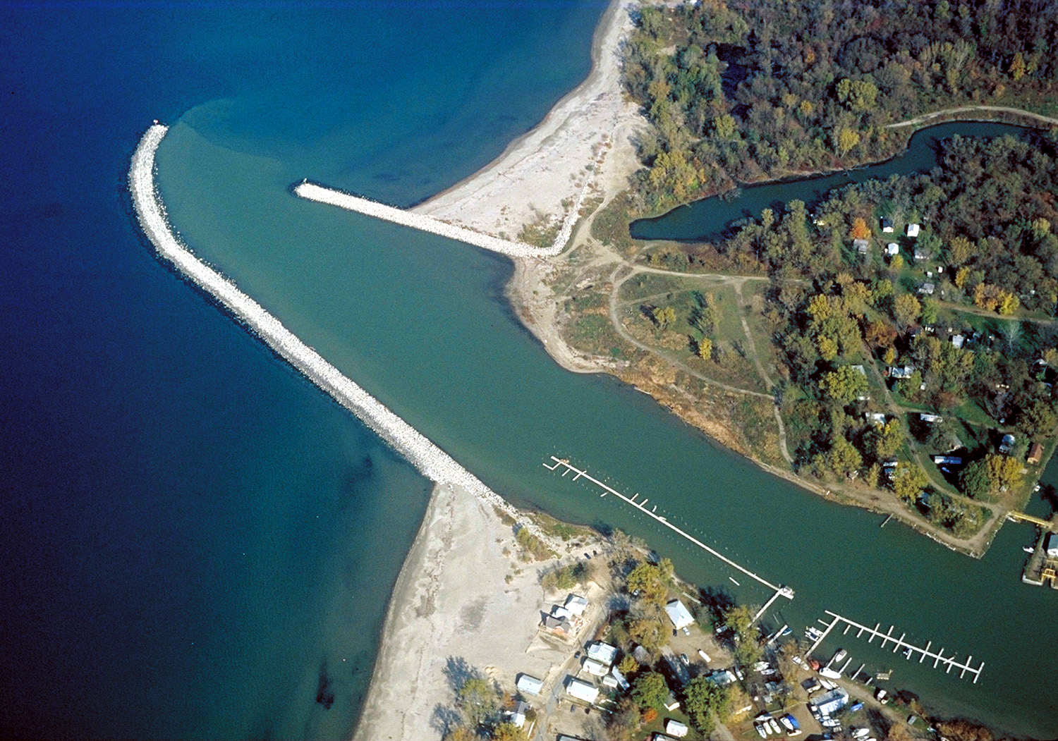 The mouth of Cattaraugus Creek on Lake Erie near Sunset Bay, New York, USA. The Cattaraugus Indian Reservation occupies the land on the north side (upper in this photograph) of the creek. View is to the north. The U.S. Army Corps of Engineers constructed the breakwaters and dredges the channel as necessary.